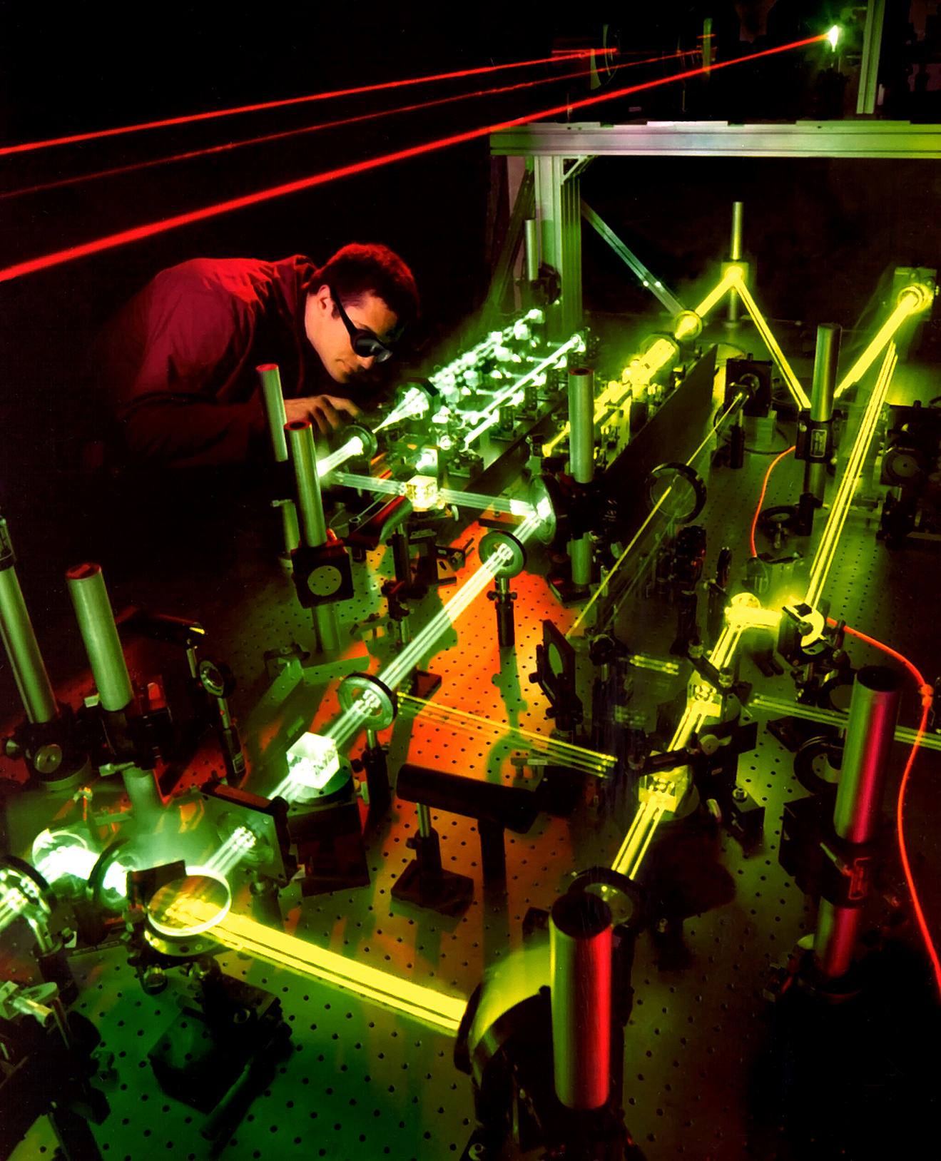 Original description from the American Air Force Research Laboratory: "An optical engineer evaluates the interaction of multiple lasers that will be used aboard the Airborne Laser, a megawatt-class laser weapons system being developed to defend against ballistic missile attacks. The Directed Energy Directorate conducts research into beam-control technologies."